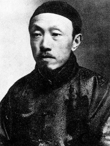 Chen Shizeng (1876－1923)